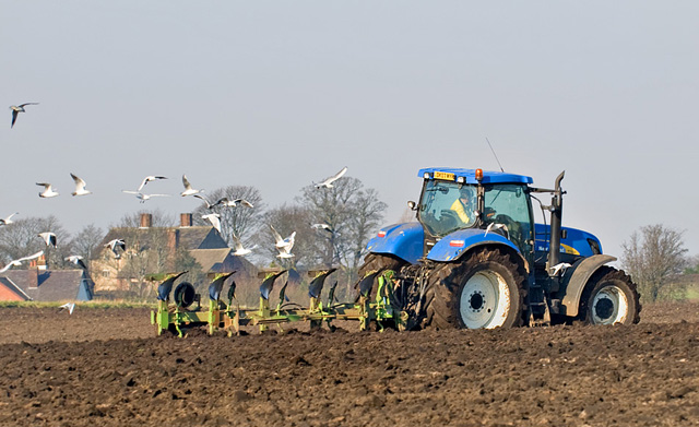 Ploughing the modern way King's Moss